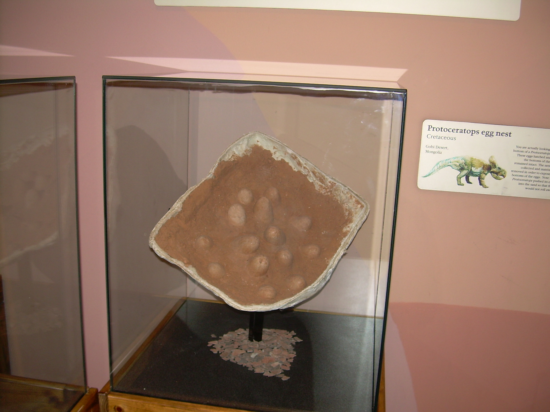 Photograph of a fossil cast of a Protoceratops egg nest taken at the North American Museum of Ancient Life.